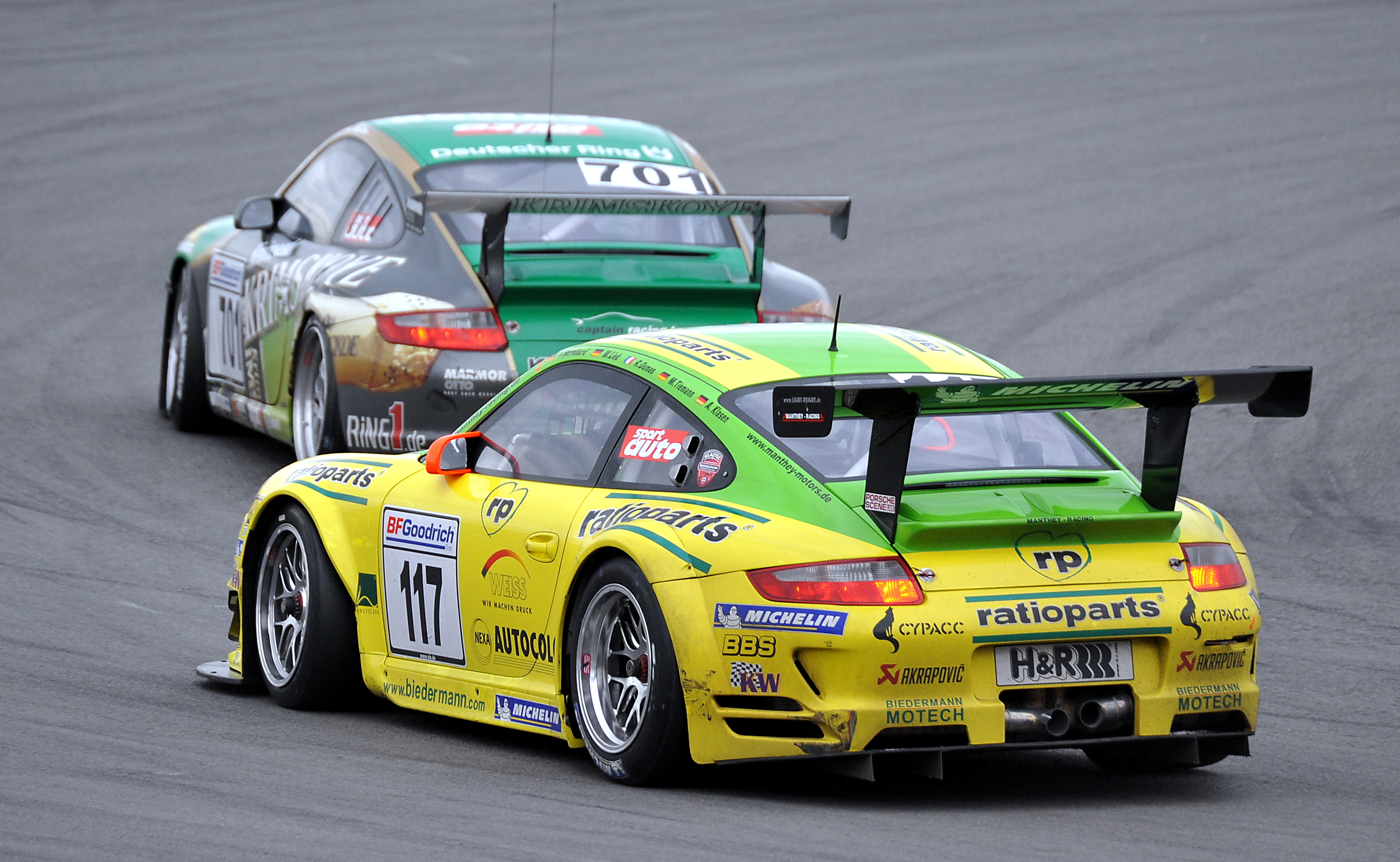 Porsche 911 GT3 RSR of the Mantey Racing Team during the "6h ADAC Ruhr-Pokal-Rennen" tournament of the "BF Goodrich Langstreckenmeisterschaft 2009" series on Nürburgring race course. The racing team won the tournament the third time in succession that day. After 6:02:06,889 hours and 950,391 kilometers the drivers Marc Lieb, Marcel Tiemann, and Arno Klasen finished first.